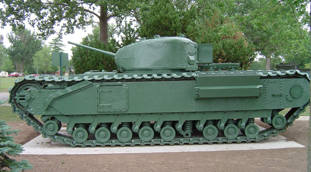 Churchill I tank